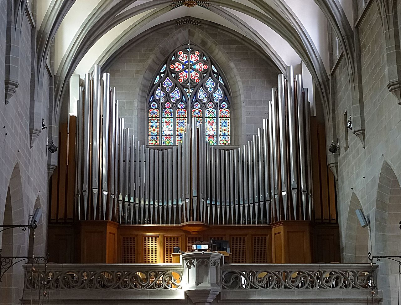 The Organ at Fraumunster Church